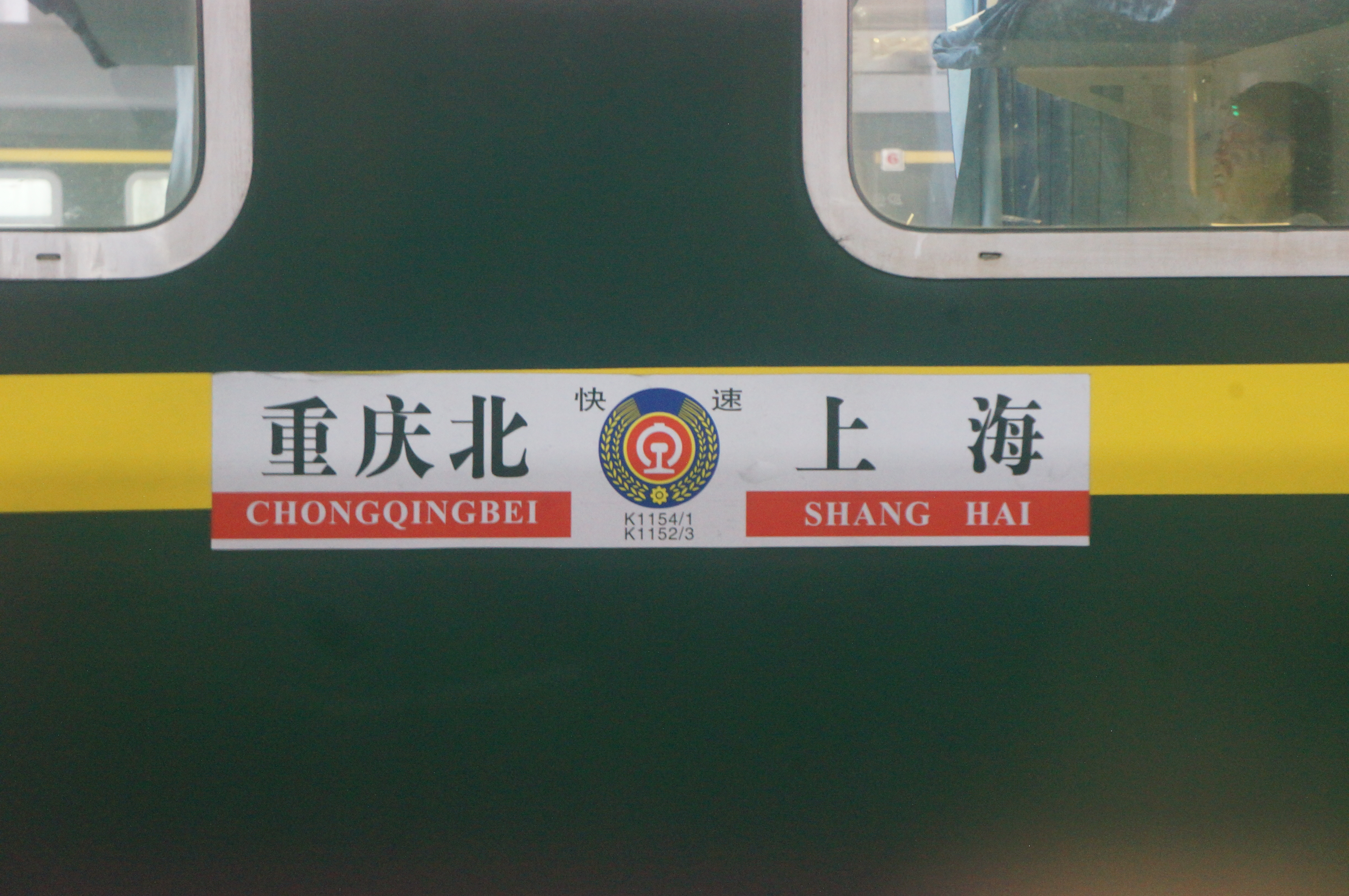 K1151 2 3 4 infoboard in 201706, taken at Suzhou Railway Station